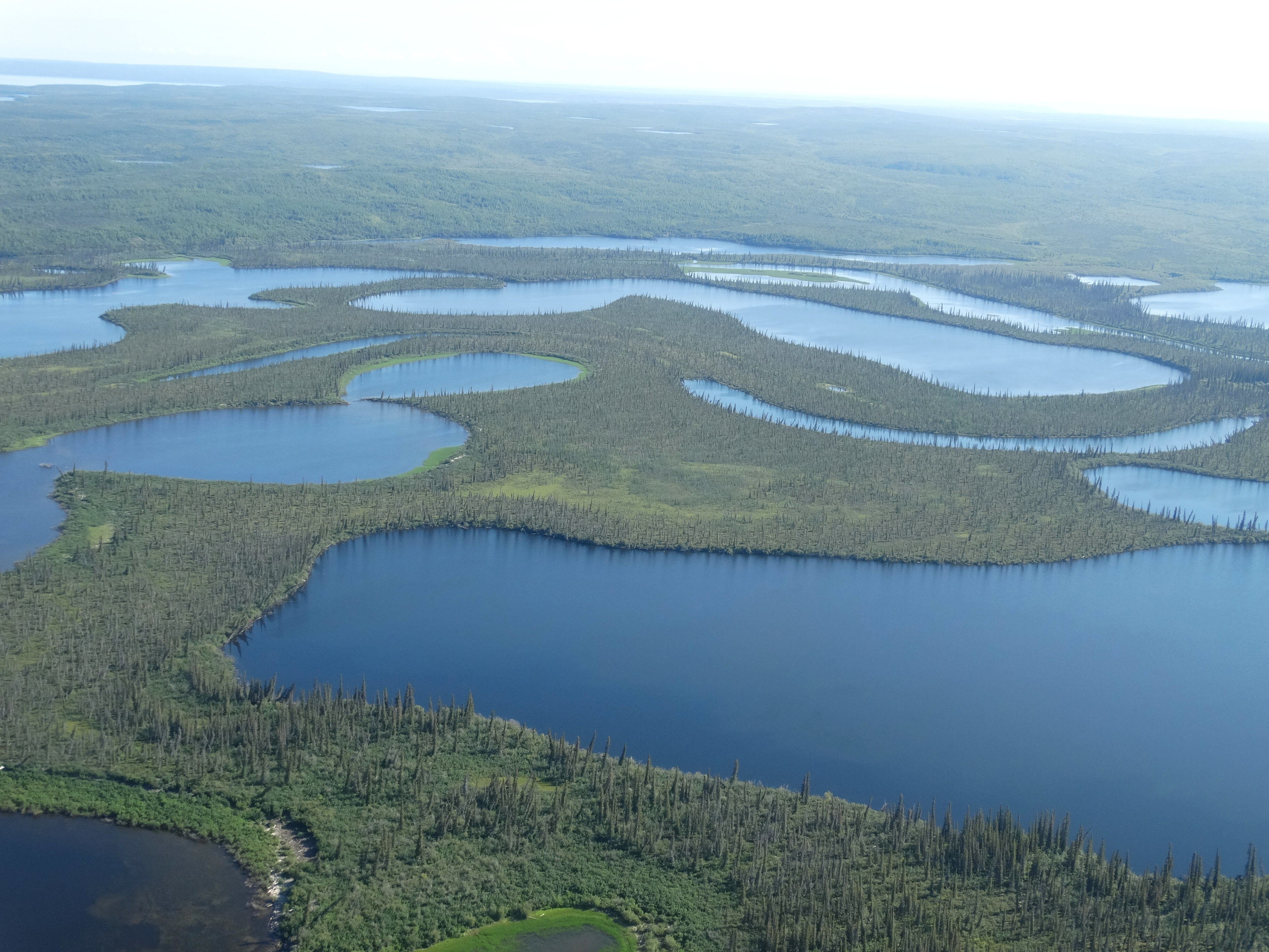 View over Mackenzie Delta from Cessna 172 - En route from Inuvik to Tuktoyaktuk - Northwest Territories - Canada - 01